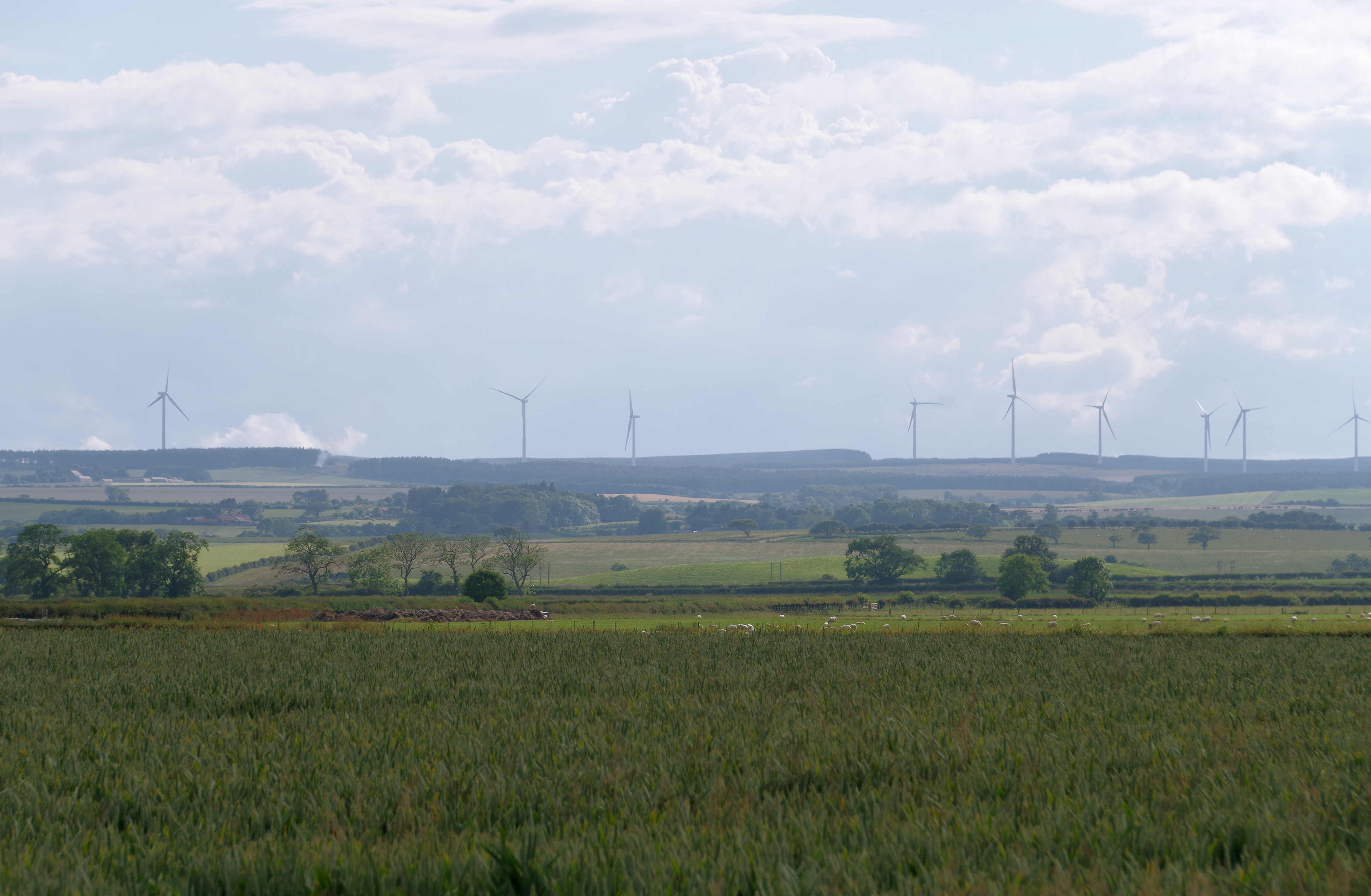 Looking west from West Fleetham in Northumberland, towards a wind farm.